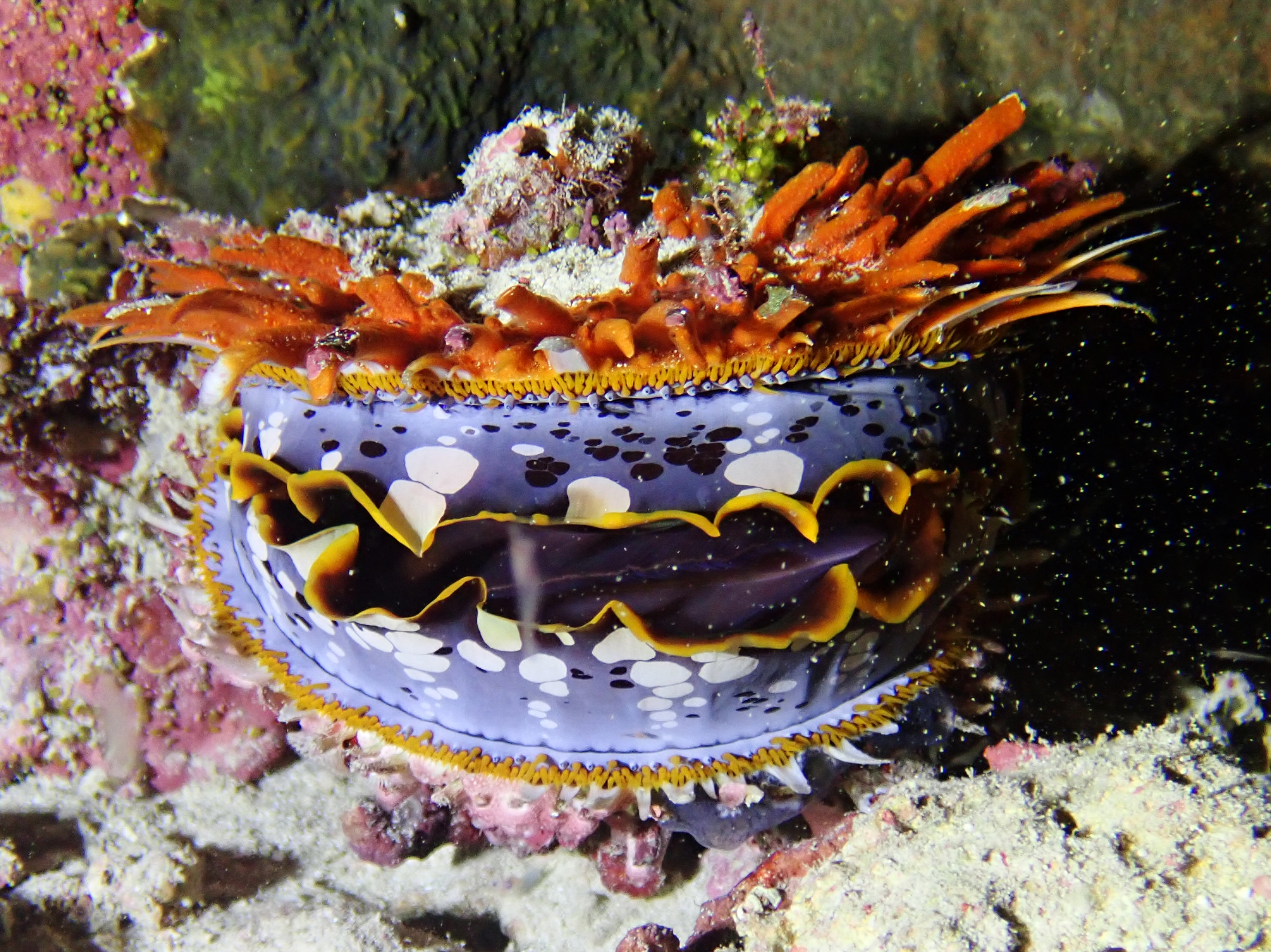 Spiny oyster (Spondylus varius) seen in Mayotte ("Passe en S").